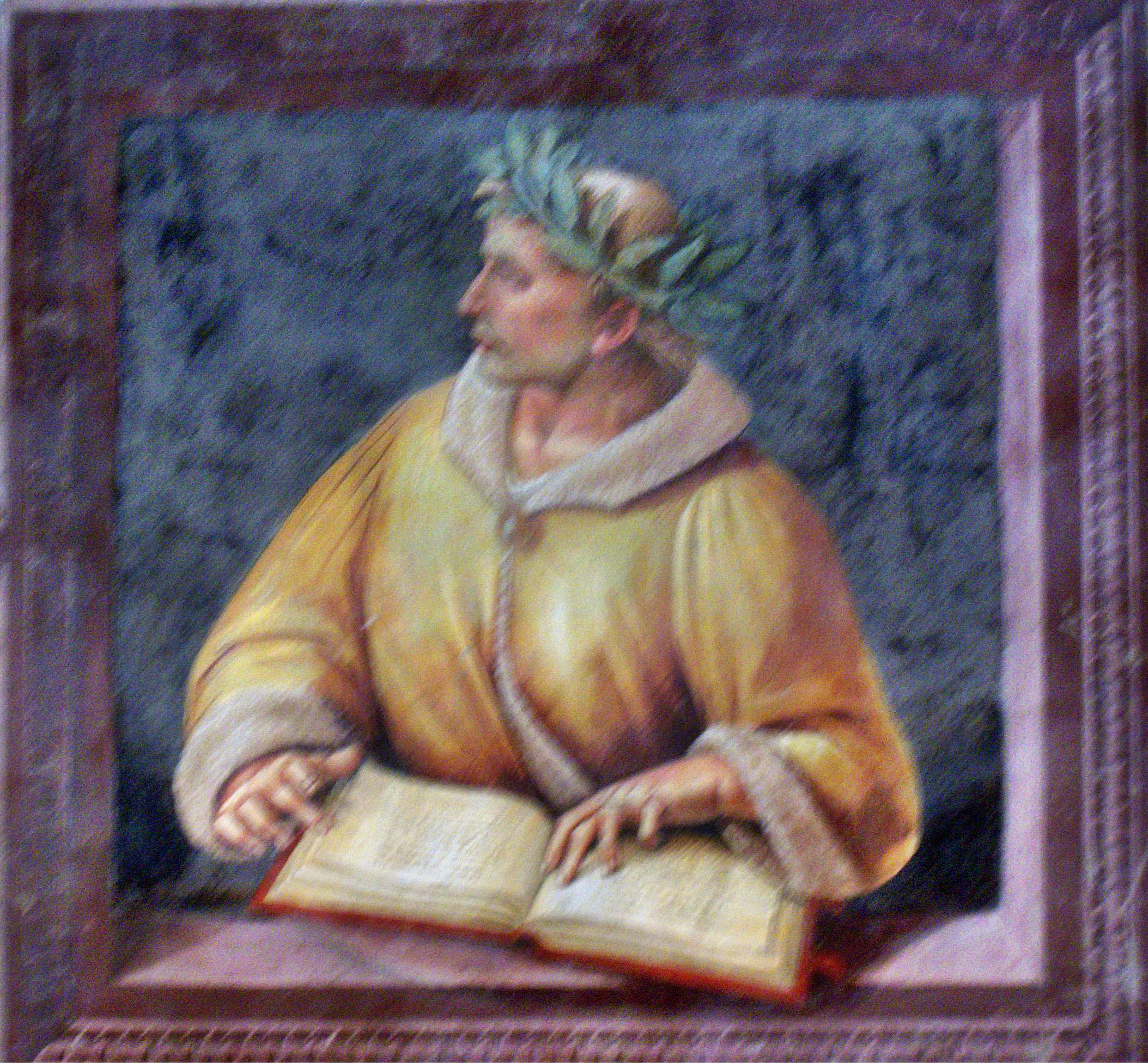 "Ovid" by Luca Signorelli and his school (1499-1504); San Brizio Chapel, Cathedral of Orvieto, Italy